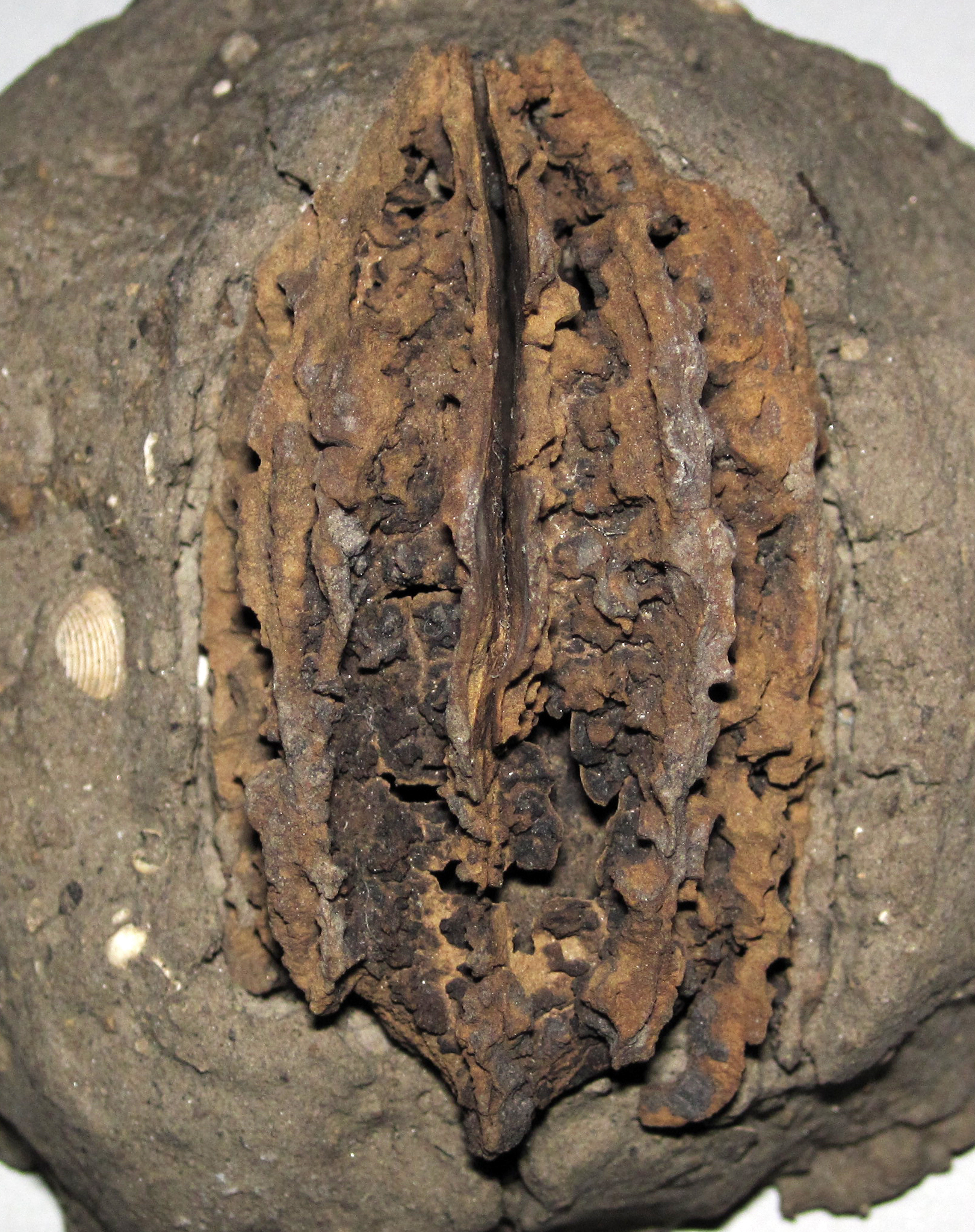 Juglans cinerea Linnaeus, 1759 - fossil white walnut from the Pleistocene of Michigan, USA. Classification: Plantae, Angiospermophyta, Fagales, Juglandaceae Locality: unrecorded/undisclosed site in Saginaw County, Michigan, USA See info. at: Juglans_cinerea